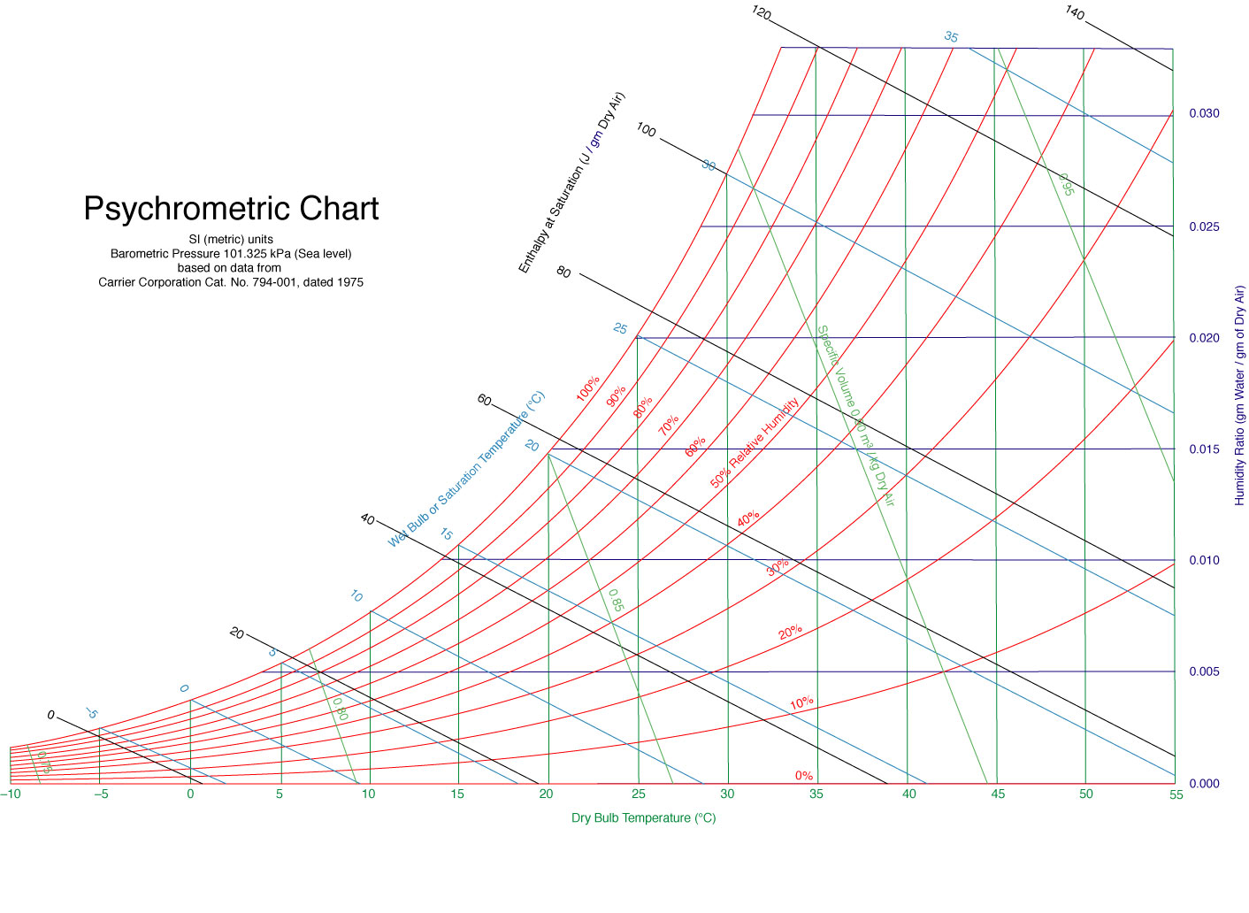 psychrometric chart